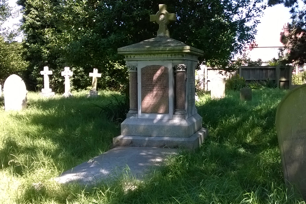 Memorial To Sir John Spencer Login